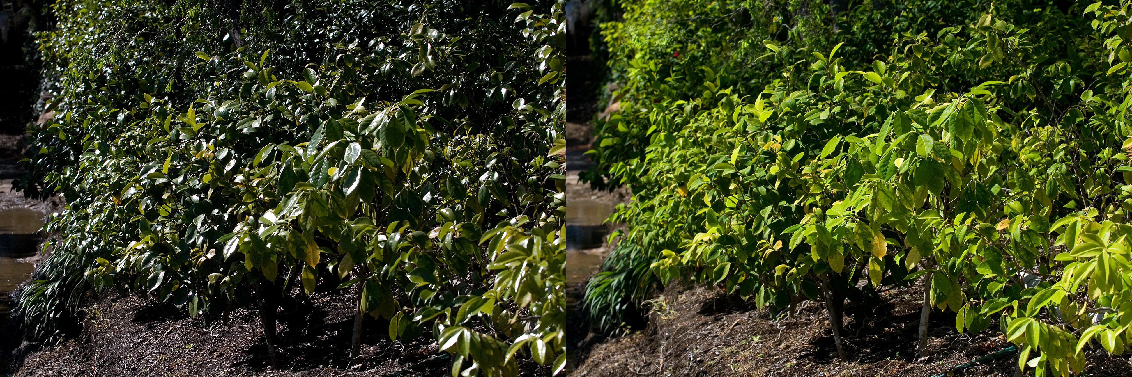 No polarising filter left, polarising filter right